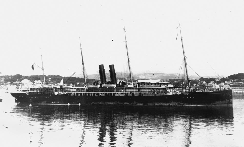 United Kingdom 5,857 GRT liner Orotava, built in 1889 for the Pacific Steam Navigation Co. In the Boer War she was requisitioned and served as a troop ship. In 1906 she passed to the Royal Mail Steam Packet Co. In the First World War she was requisitioned and served as an armed merchant cruiser. She was scrapped in 1919